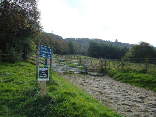 Roynton Road (USRN: 7400820) to Rivington and Blackrod High School. Here we are near the Sheep House Lane car park looking towards the Pigeon Tower on the skyline. En-route to the tower one passes the seven-arch bridge, ruin of Stone House lodge and remains of Kitchen and Japanese Gardens. This is an open public road recorded on the National Street Gazetteer. [1]